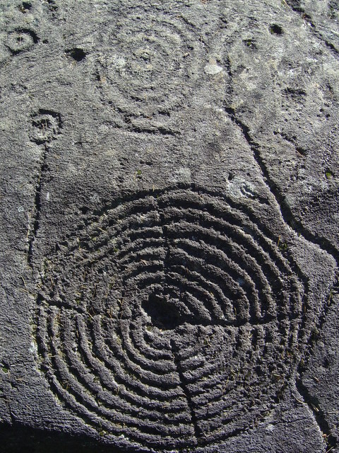 Concentric circles with a cross. Rock carvings of Carschenna in Switzerland, abt 3500 yrs old.